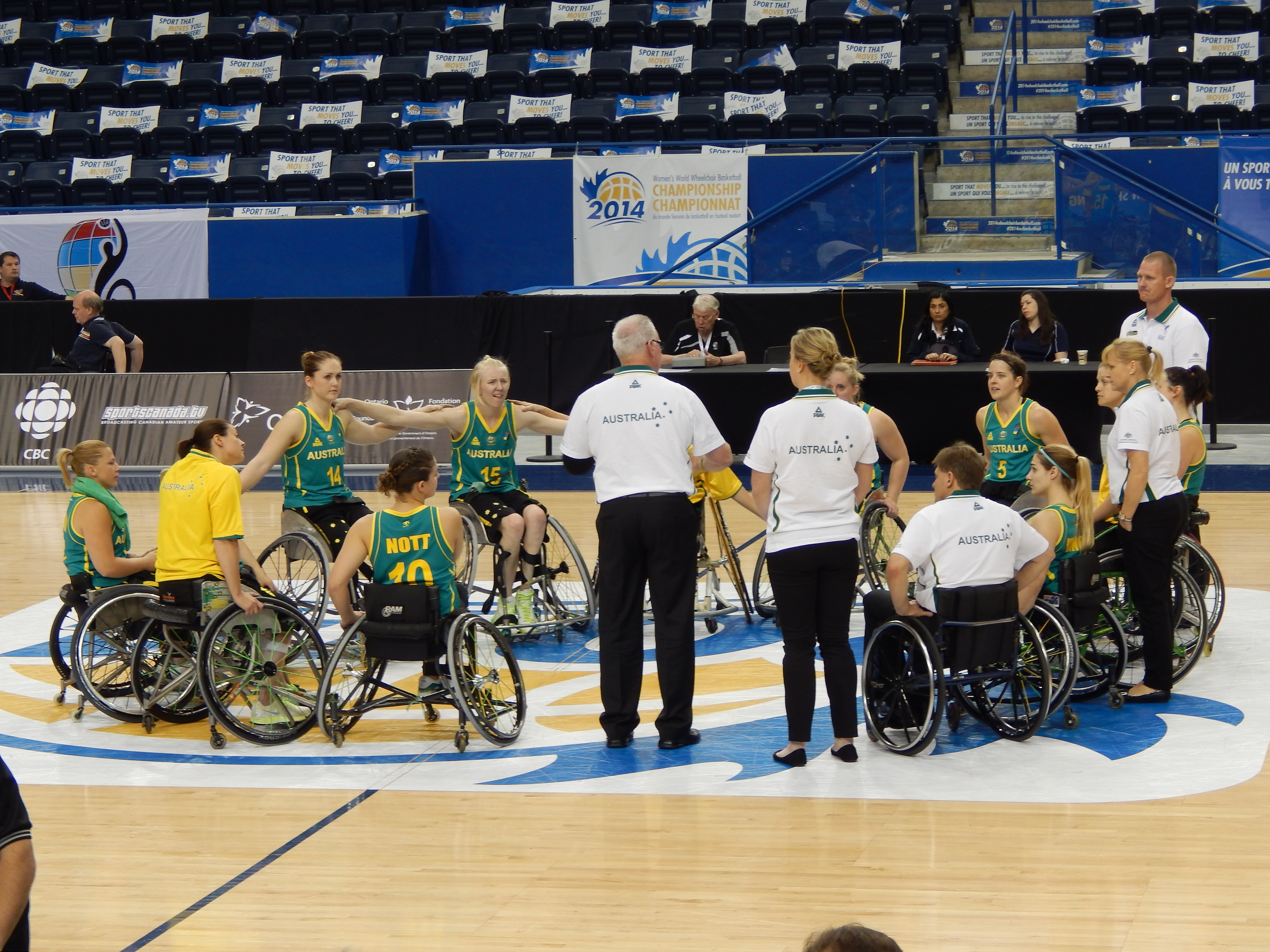 Australian Team. Left to right: Shelley Cronau, Leanne del Toso, Kathleen O'Kelly-Kennedy, Clare Nott, Amber Merritt, Tom Kyle (head coach), Kylie Gauci (obscured), (physiotherapist), Shelley Chaplin, David Gould (assistant Coach), Cobi Crispin, Sarah Vinci, Sarah Stewart, Jane Kyle (manager), Bridie Kean, Troy Sachs (assistant coach)